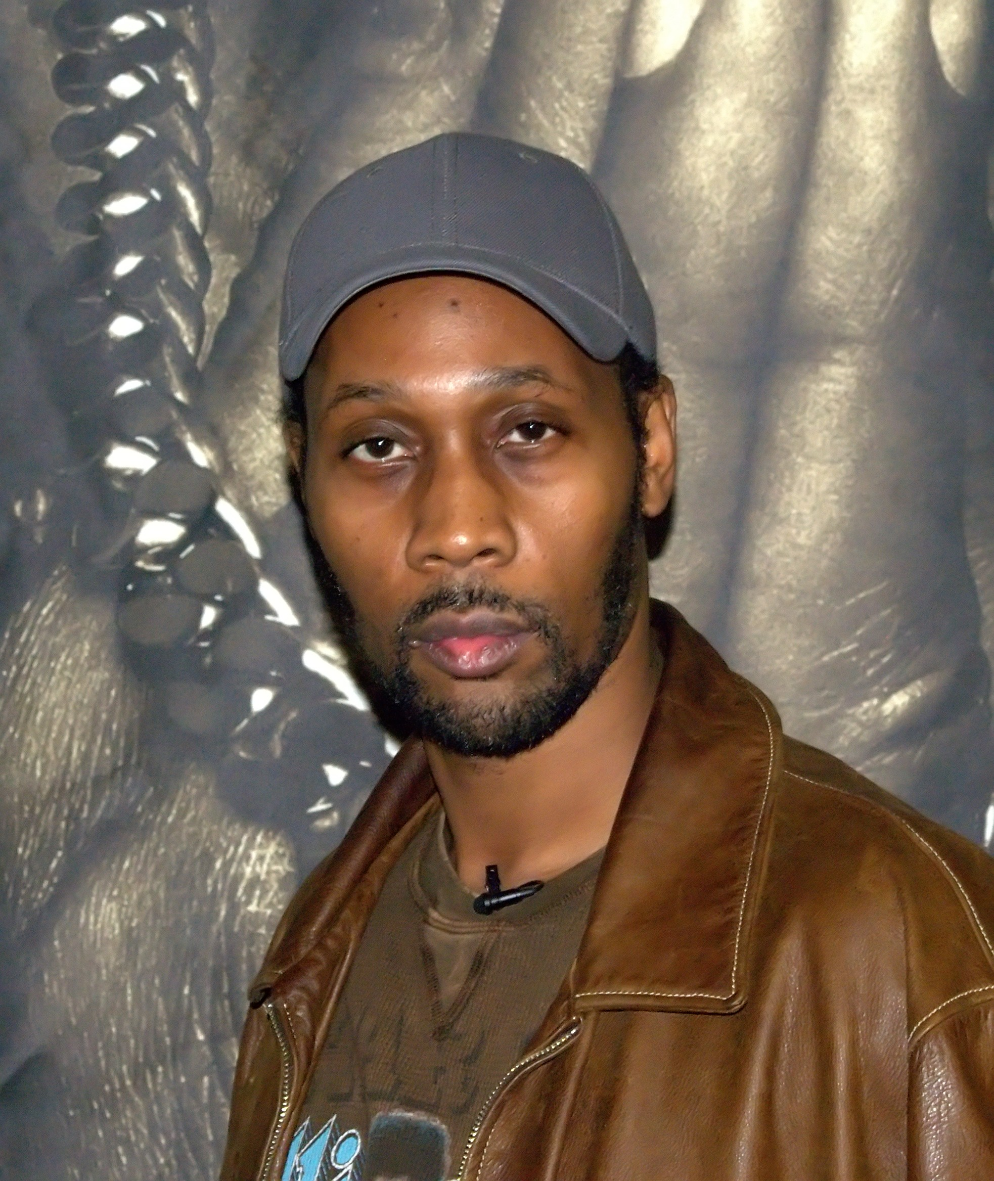 Wu Tang Clan co-founder RZA in New York City's Union Square Barnes & Noble to read from The Tao of Wu, a book about the philosophy behind the Wu Tang Clan.